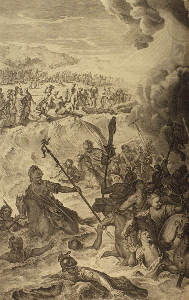 Pharaoh and his host drowned in the red Sea, as in Exodus 14:23-28: "And the Egyptians pursued, and went in after them to the midst of the sea, even all Pharaoh's horses, his chariots, and his horsemen. And it came to pass, that in the morning watch the Lord looked unto the host of the Egyptians through the pillar of fire and of the cloud, and troubled the host of the Egyptians, And took off their chariot wheels, that they drave them heavily: so that the Egyptians said, Let us flee from the face of Israel; for the Lord fighteth for them against the Egyptians. And the Lord said unto Moses, Stretch out thine hand over the sea, that the waters may come again upon the Egyptians, upon their chariots, and upon their horsemen. And Moses stretched forth his hand over the sea, and the sea returned to his strength when the morning appeared; and the Egyptians fled against it; and the Lord overthrew the Egyptians in the midst of the sea. And the waters returned, and covered the chariots, and the horsemen, and all the host of Pharaoh that came into the sea after them; there remained not so much as one of them."; illustration from the 1728 Figures de la Bible; illustrated by Gerard Hoet (1648–1733) and others, and published by P. de Hondt in The Hague; image courtesy Bizzell Bible Collection, University of Oklahoma Libraries